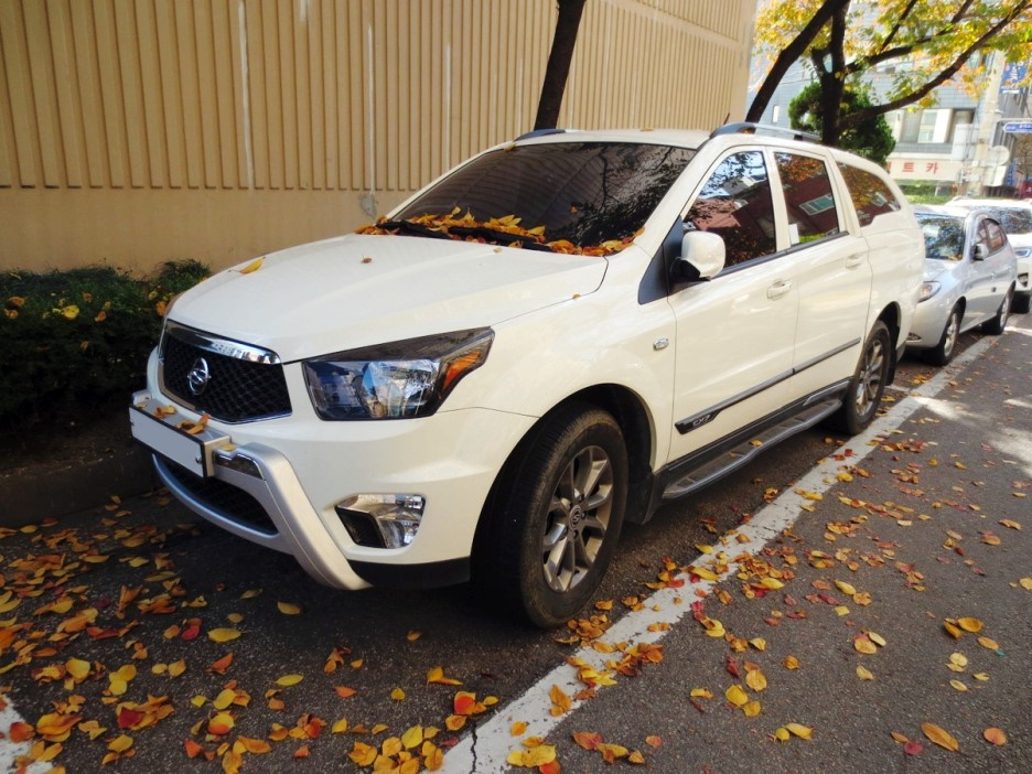 ssangyong korando sports